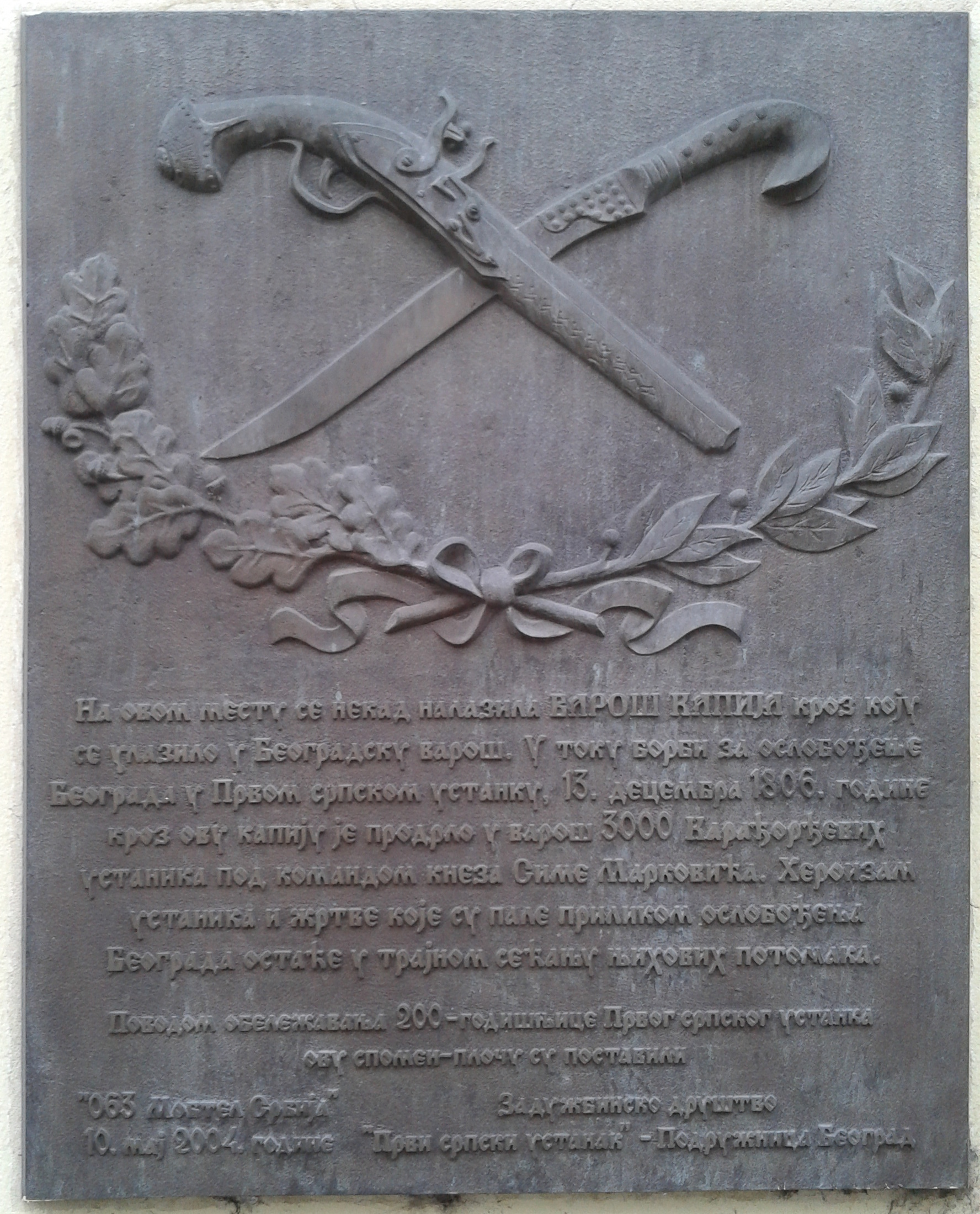 Plaque that marks the place of Varos Gate of Belgrade.